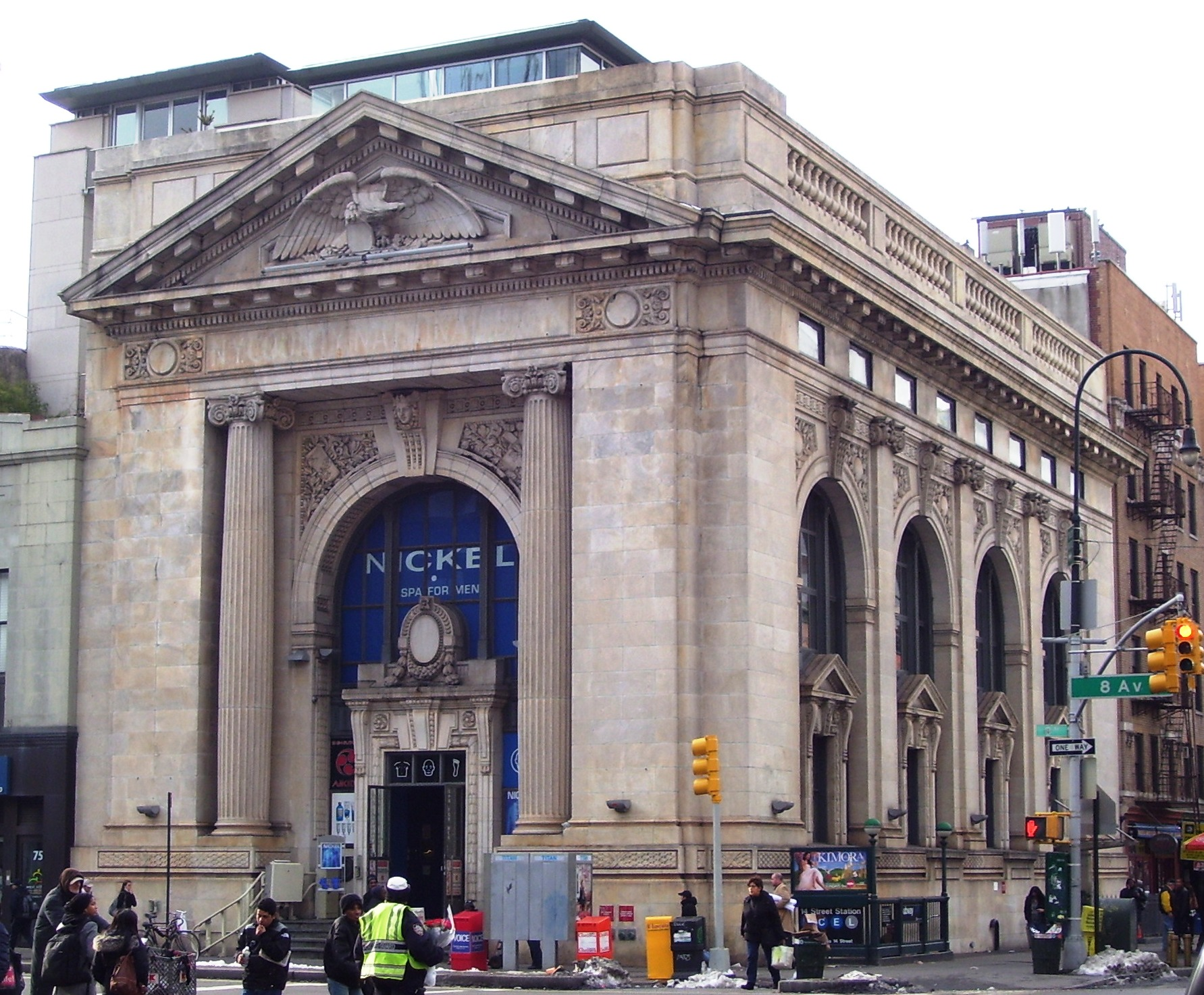 The New York County Bank Building at 77-79 Eighth Avenue at West 14th Street in Manhattan, New York City, was built in 1906-1907 and designed by DeLemos & Cordes and Rudolph L. Daus. Renovations and additions in 1999 were by Lee Harris (Hudson River Studios) and John Reimnitz. (Source: AIA Guide to NYC (4th ed.))